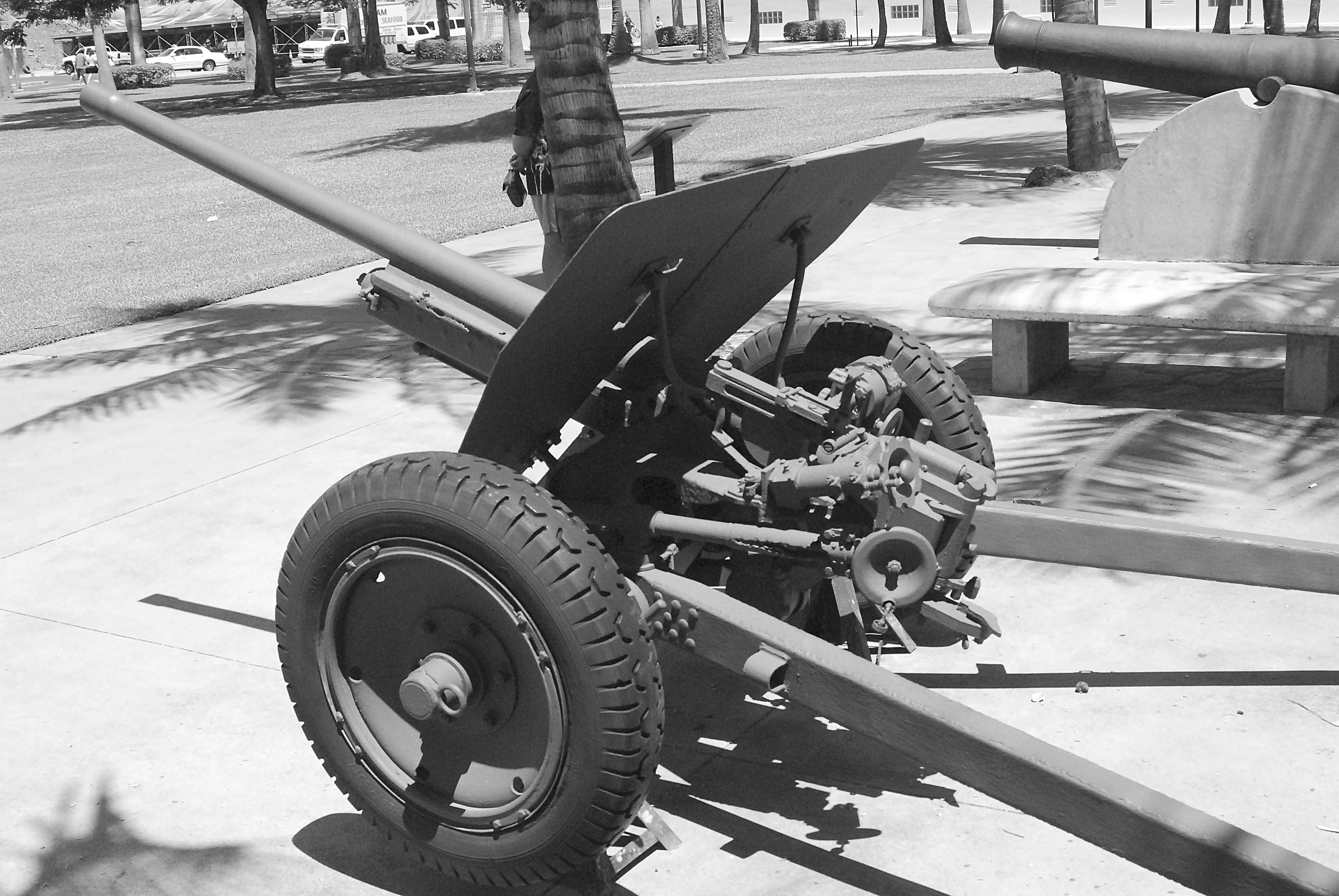 Japanese Type 1 antitank gun (1941). A light weight (1600 pound) mobile piece used by independent antitank and armored units. It's 3 lb. shell could penetrate 3 inches of armor at 500 yards. Now on display at Battery Randolf US Army Museum, Honolulu. Other views: Image:Antitank gun Japanese Type 1 rear 3-4 view right.jpg Image:Antitank gun Japanese Type 1 front 3-4 view.jpg